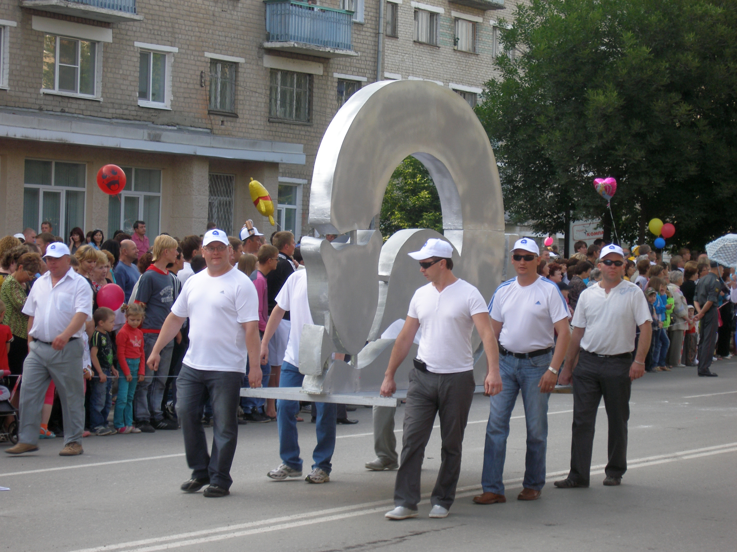 KUMZ participates in local carnival 2011